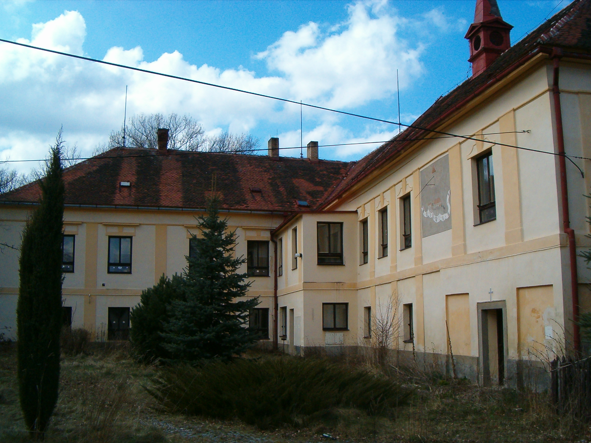 Lažany village (district Strakonice) - detail of castle